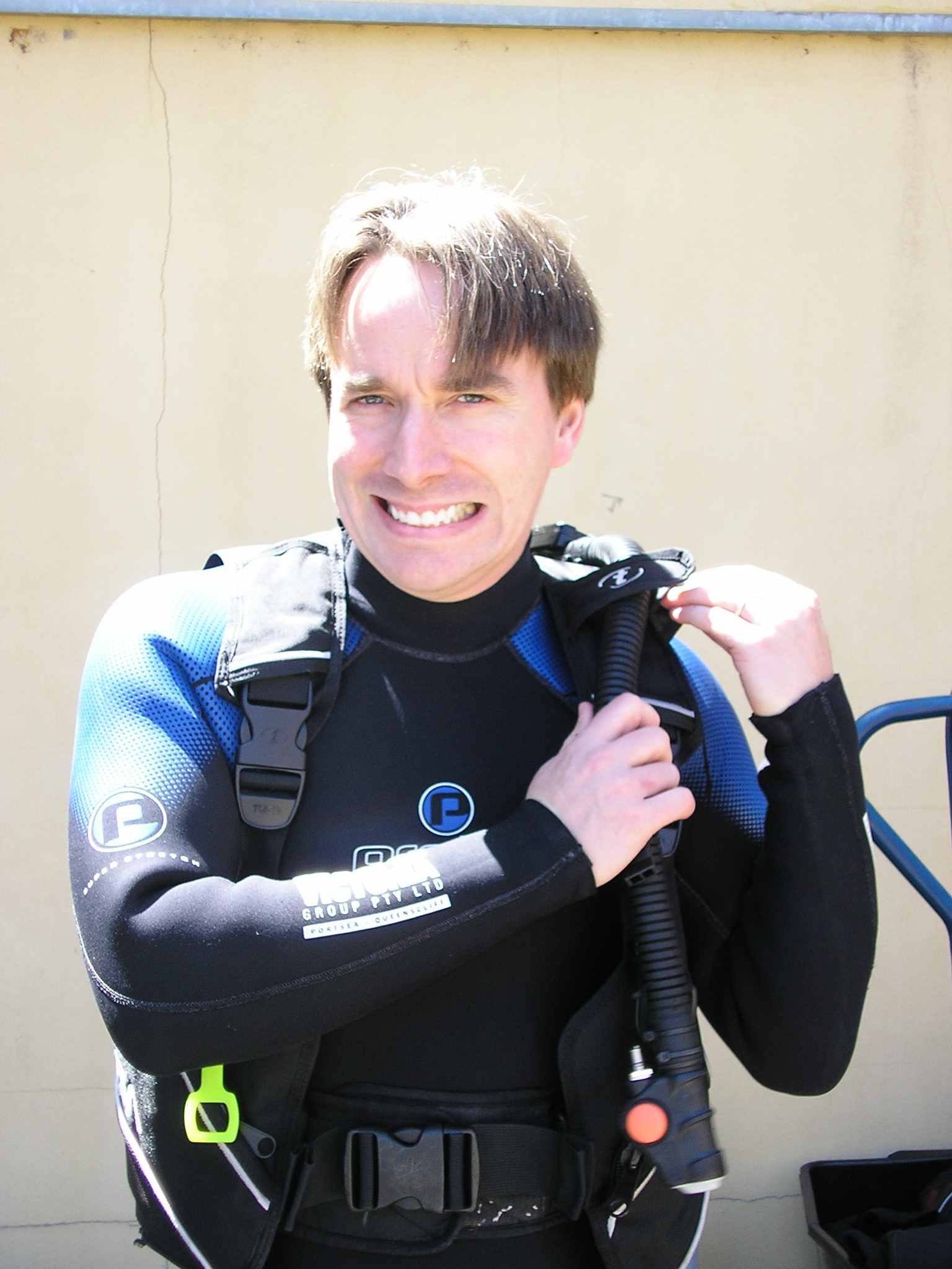 Linus Torvalds, creator of the Linux kernel, in SCUBA gear.